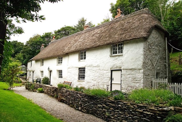 Harmony Cot Harmony Cot is situated in Blowinghouse, which is part of the hamlet of Trevellas, near St.Agnes in Cornwall. The cottage is the birthplace of the artist John Opie R.A. (1761 - 1807). The cottage was originally called The Blowinghouse, but was renamed Harmony Cot by John Opie's first wife, Mary Bunn. John Opie moved to London when he became famous and he is buried in St. Paul's Cathedral.